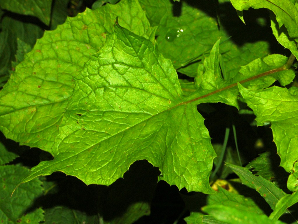 Cicerbita alpina